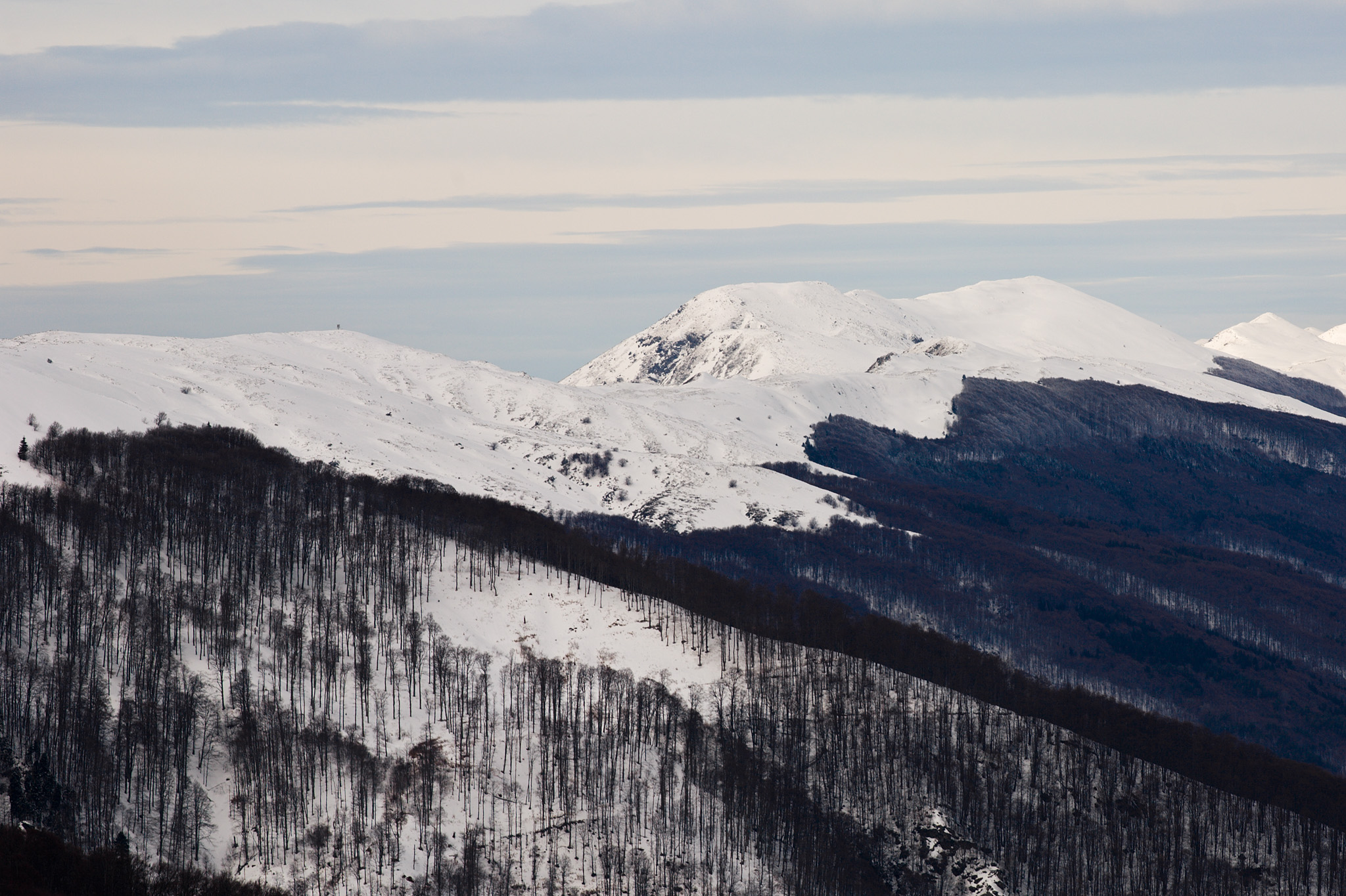 Lozen peak in Belasitsa mountains, Bulgaria